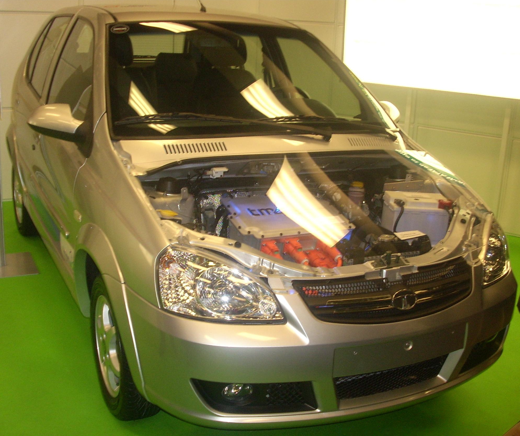 Tata Indica EV photographed at the 2009 Montreal International Auto Show.